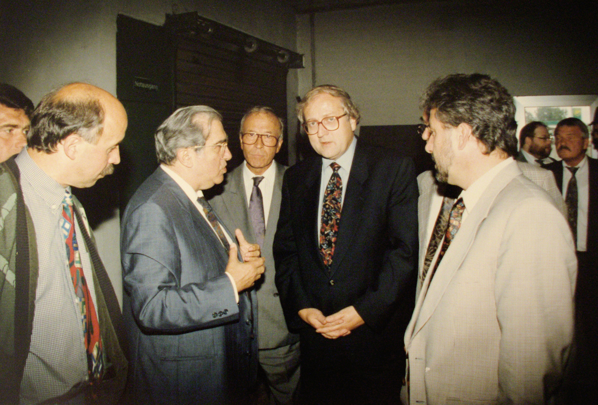 Günter Felke in conversation with Minister of Economics Rainer Brüderle at a factory tour in 1993